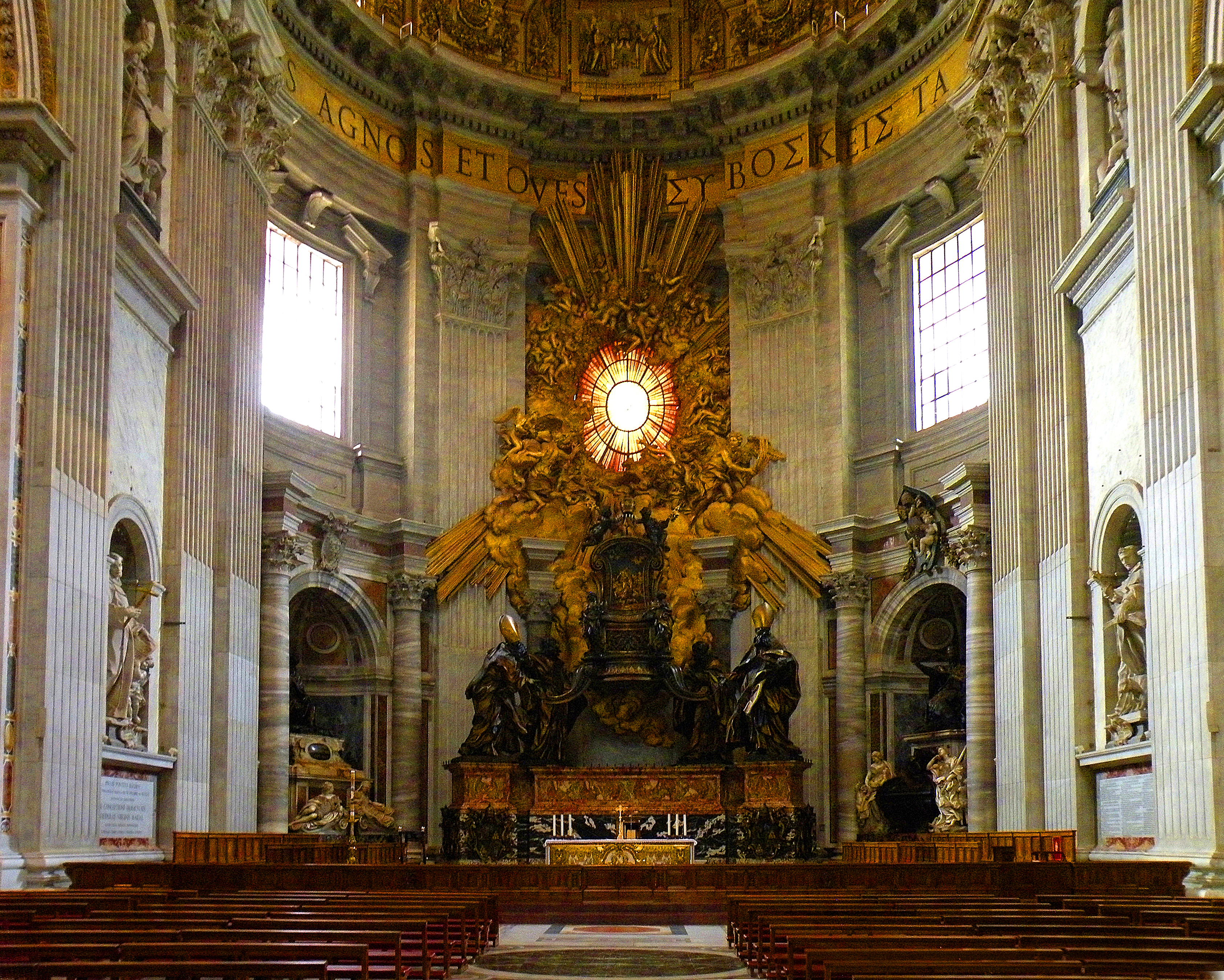 The Chair of Saint Peter and Glory